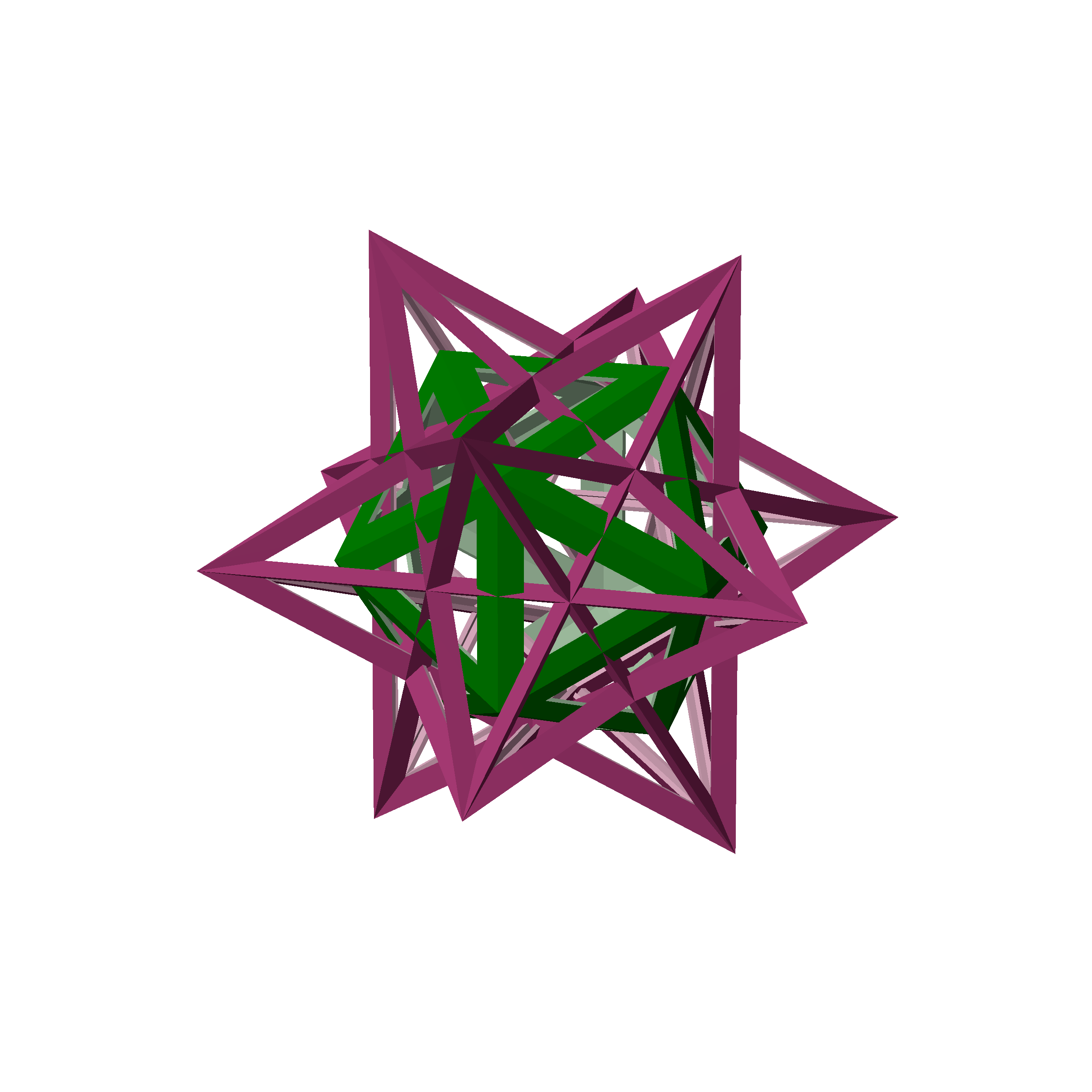 Regular polyhedra and their greatenings (Conway operation)Part of Skeletons of polyhedra (mostly green and violet) dodecahedron (violet),great dodecahedron (green) icosahedron (green),great icosahedron (violet) stellated dodecahedron (violet),great stellated dodecahedron (green) The images in this set have matching sizes. Please do not overwrite them with cropped versions. This image was created with POV-Ray.